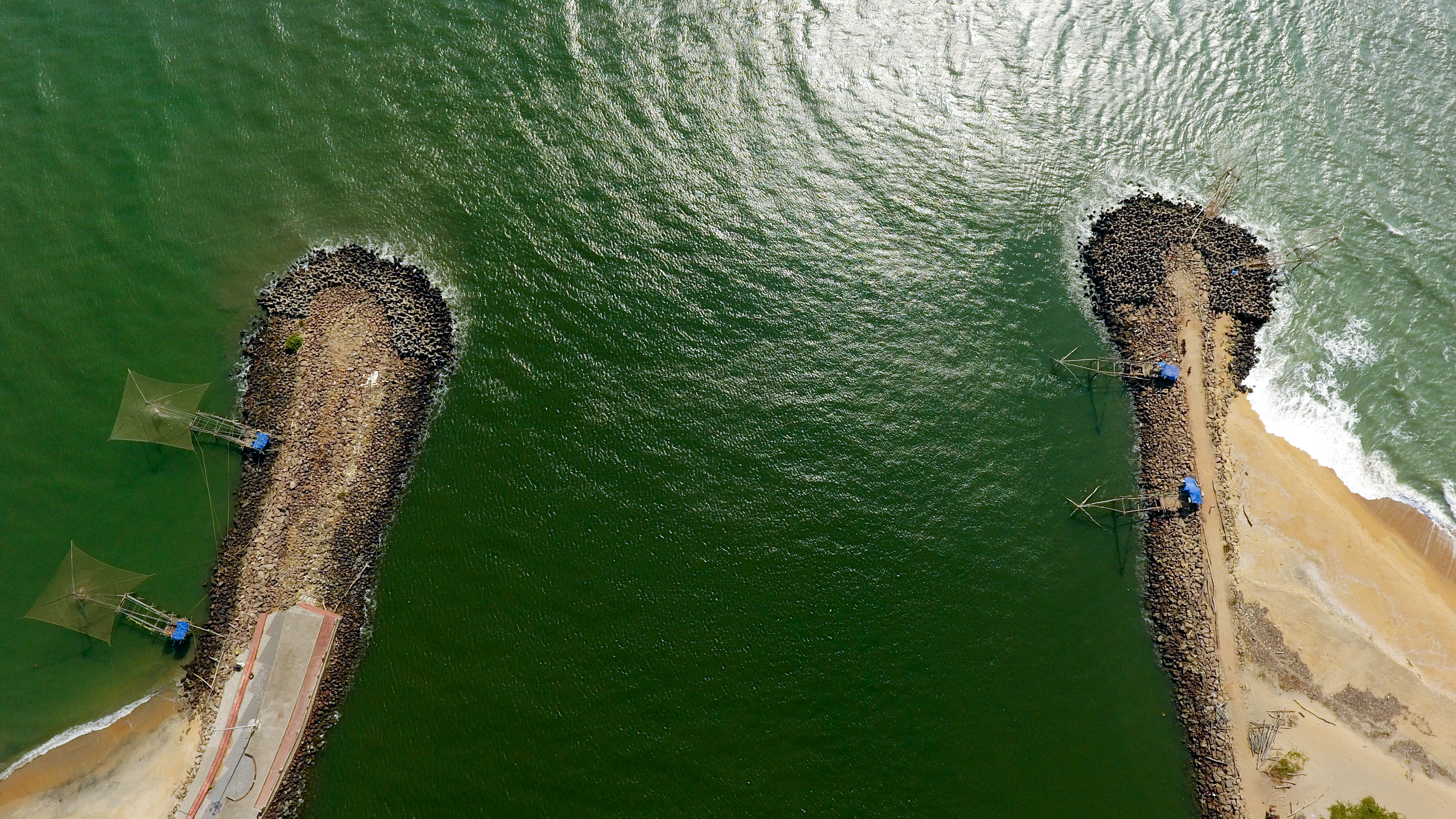 The Breakwaters of Munambam Fishing Harbour, Kerala